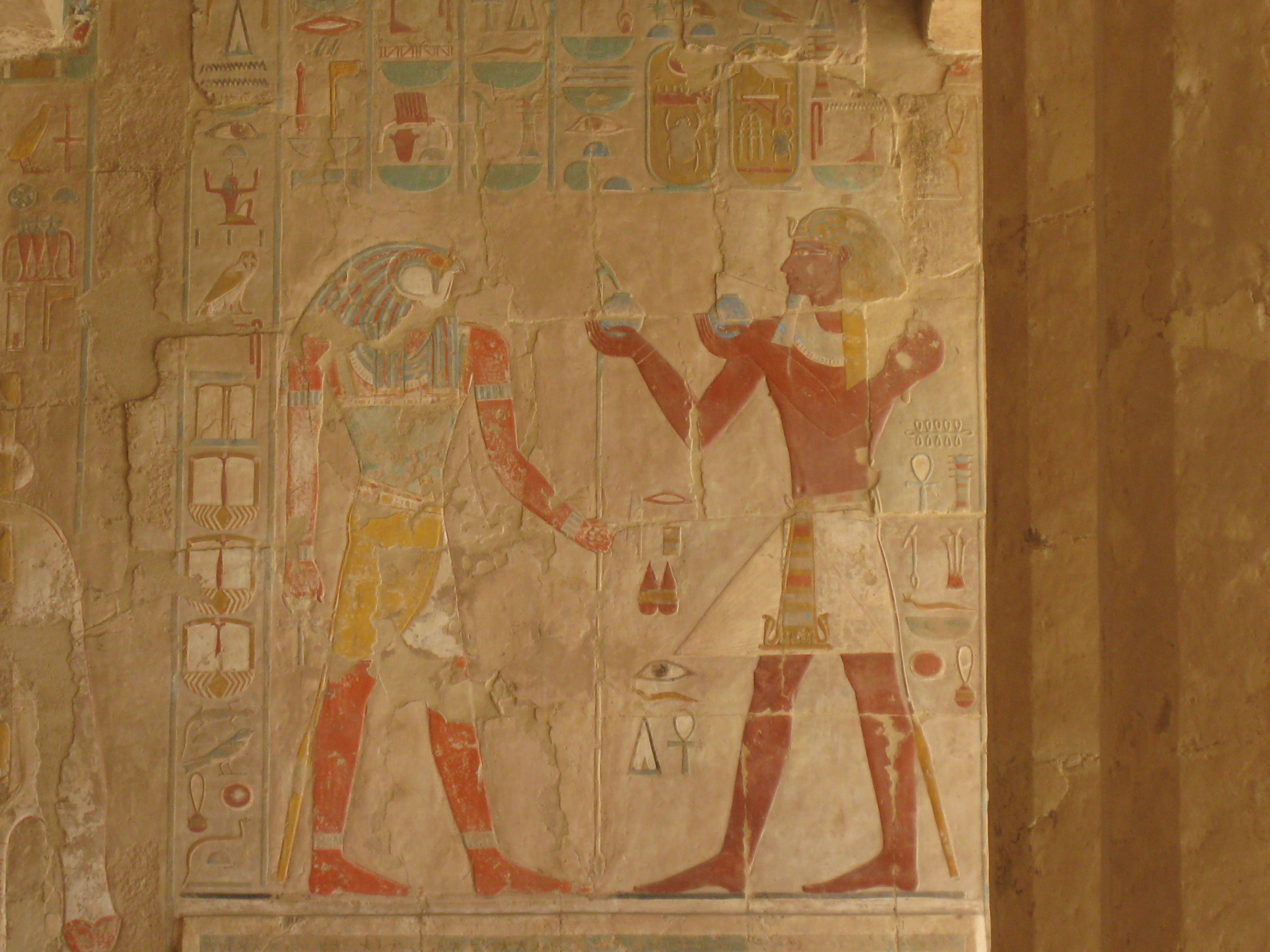 A partially surviving relief at the Mortuary Temple of Hatshepsut in Egypt.